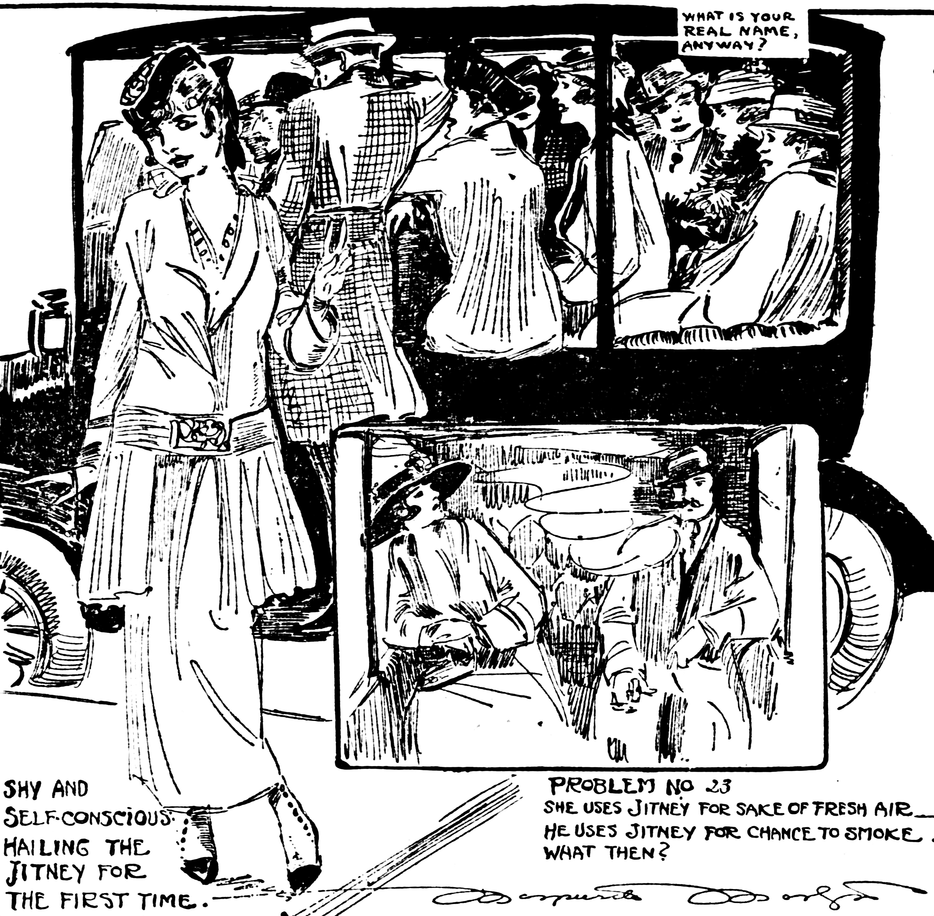 Cartoon or figurative sketch by Marguerite Martyn shows passengers in a jitney or :en:Share_taxi#Jitney| . A new passenger stands at left. Two passengers, one a smoker and the other a non-smoker, are in a separate panel.